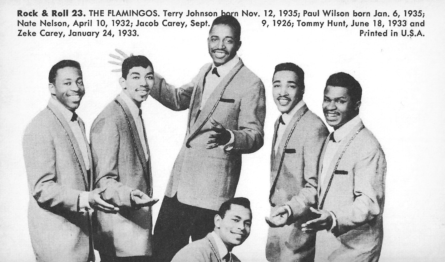 Nu-Cards trading card photo of The Flamingos.